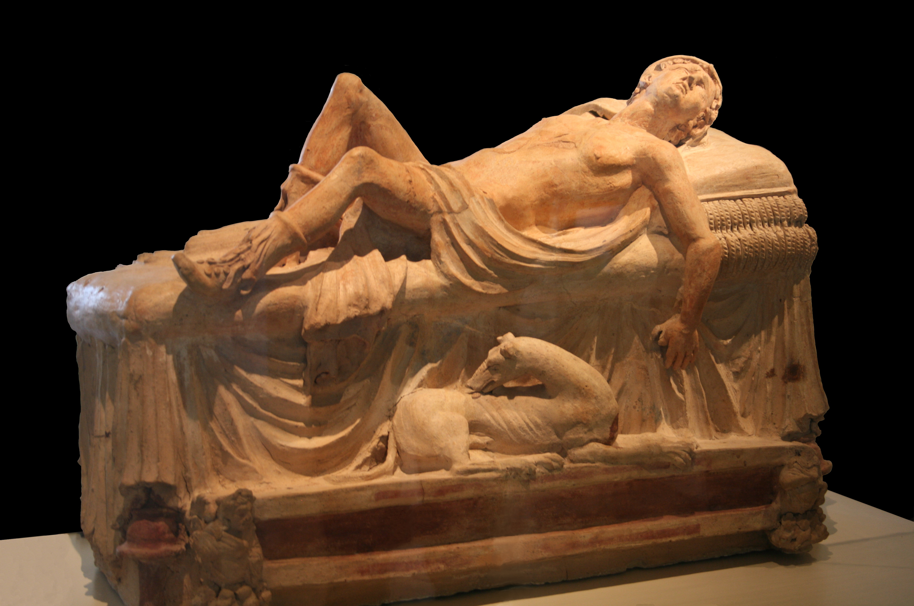 Funerary monument in polychrome terracotta representing dying Adonis